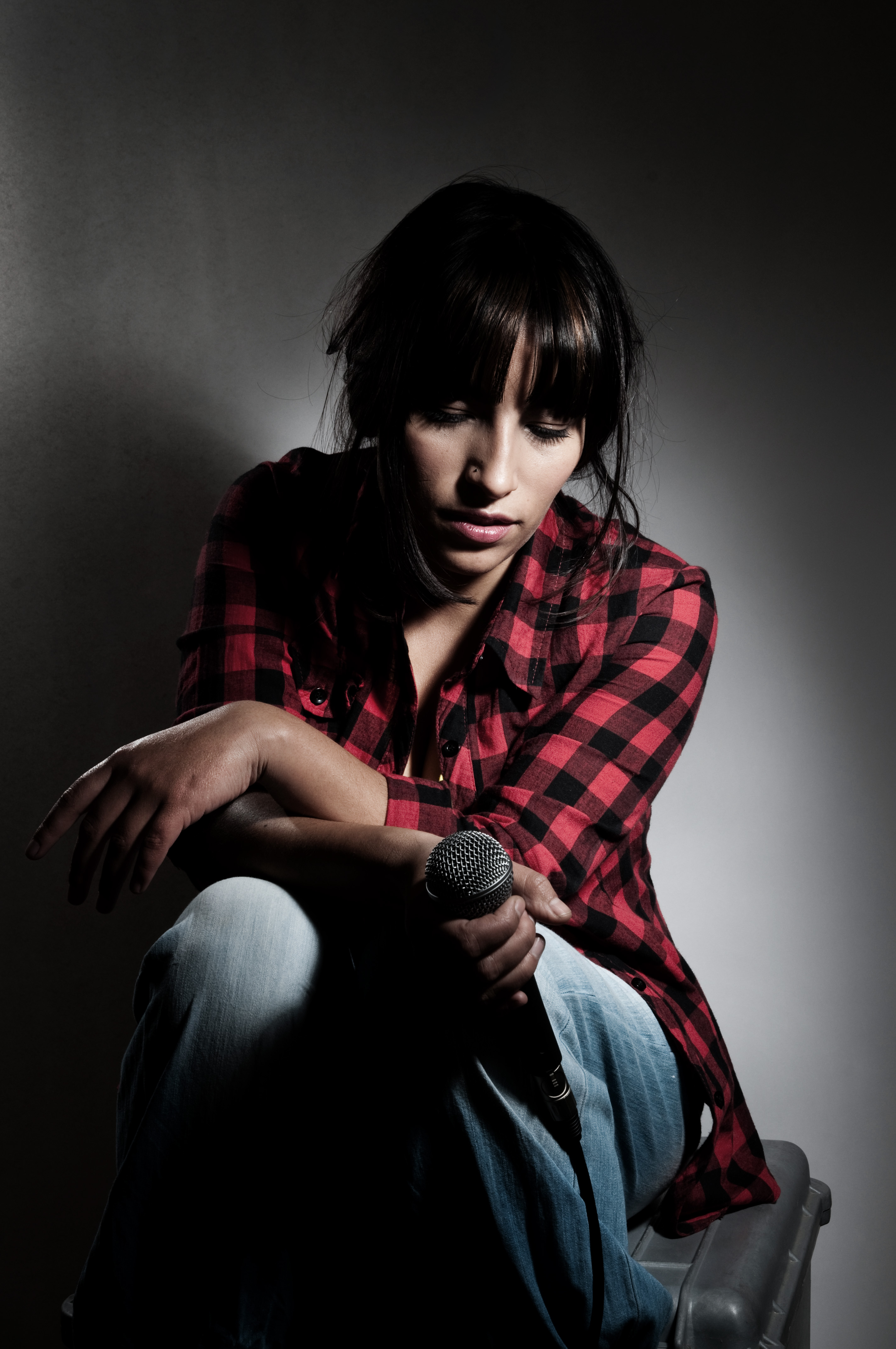 Photograph of Chilean rapper Ana Tijoux, from the photoshoots of her album 1977.